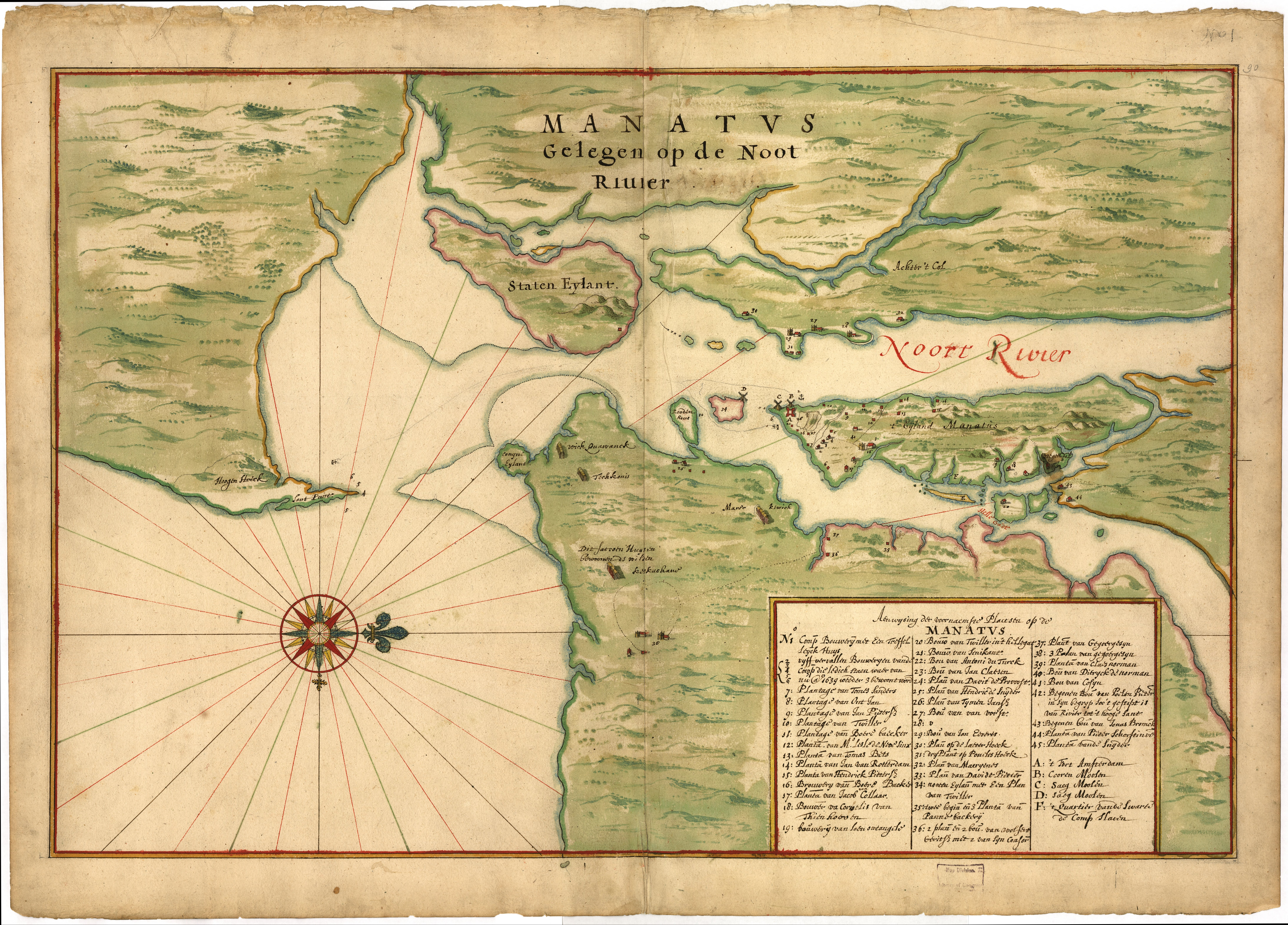 "Manatvs gelegen op de Noot [sic] Riuier" - a Dutch map of Manhattan and environs from around 1670, believed to be a copy of a 1639 map often attributed to Johannes Vingboons (a.k.a. Joan Vinckeboons).[1]